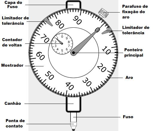 Parts of a typical dial indicator.